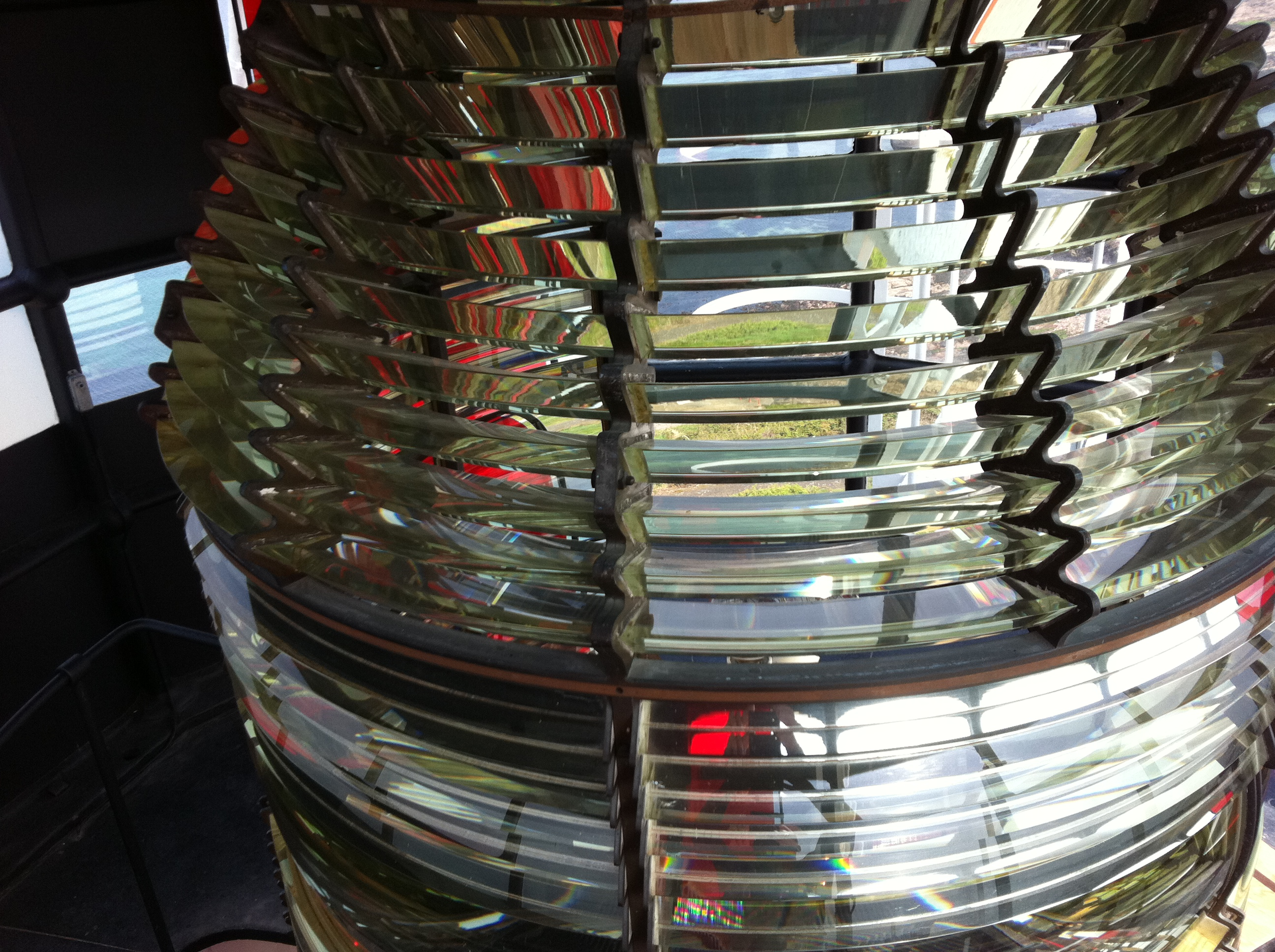 The second order Fresnel lens in Roche's Point LighthouseGaeilge: Lionsaí i dTeach solais, Rinn an Róistigh, Co. Chorcaí